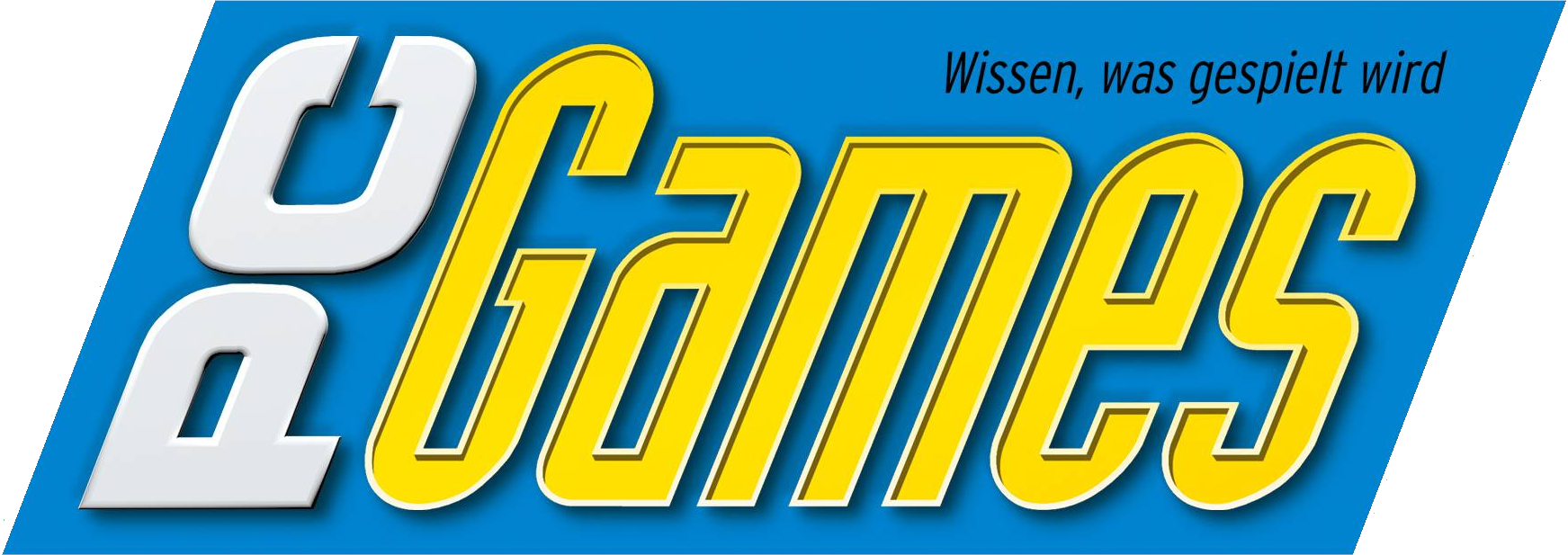 Logo for PC Games Magazine